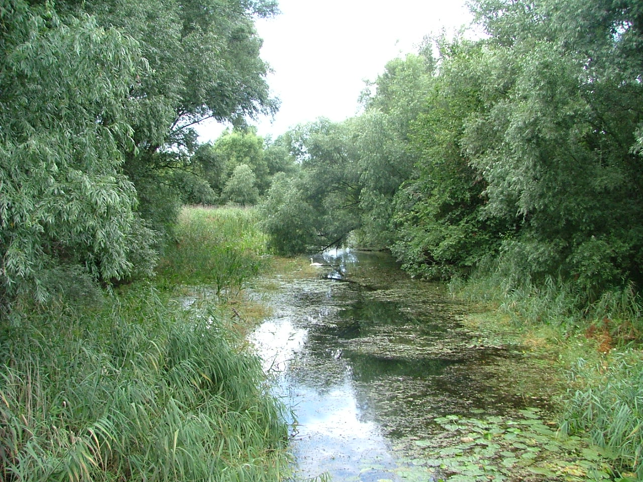 Kisbajcs, Szávai channel